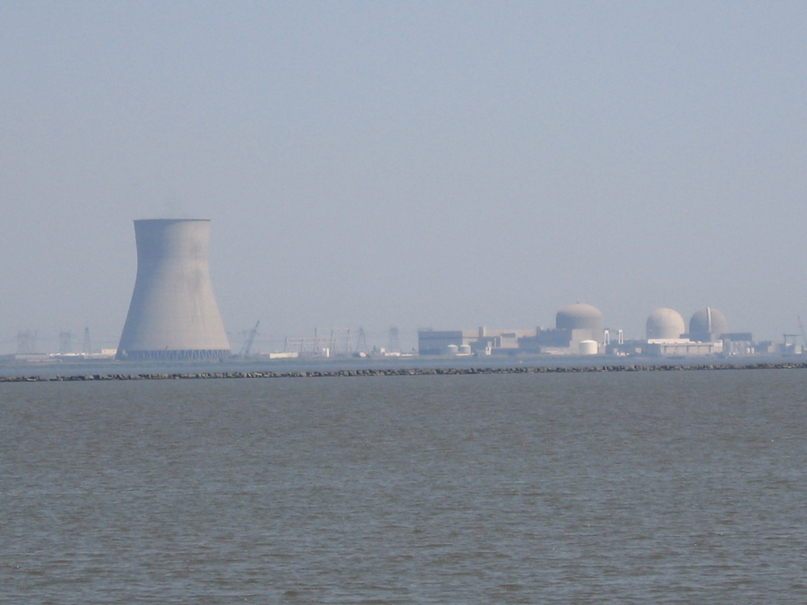 Entire PSE&G nuclear complex (which contains both Hope Creek Nuclear Generating Station and Salem Nuclear Power Plant) as seen across the Delaware Bay from Augustine Beach, Delaware.